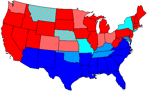 Summary of party control of U.S. house seats in the 69th United States Congress following election. Stripes indicate a tie between two or more parties. Legend: 80.1-100% Democratic seat majority 60.1-80% Democratic seat majority 60% or less Democratic seat plurality 60% or less Republican seat plurality 60.1-80% Republican seat majority 80.1-100% Republican seat majority